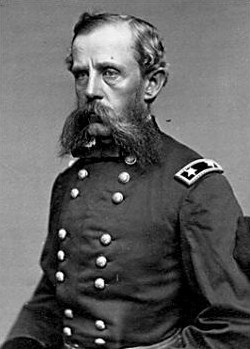 Photo accessed at Author and photographer dead over 100 years.